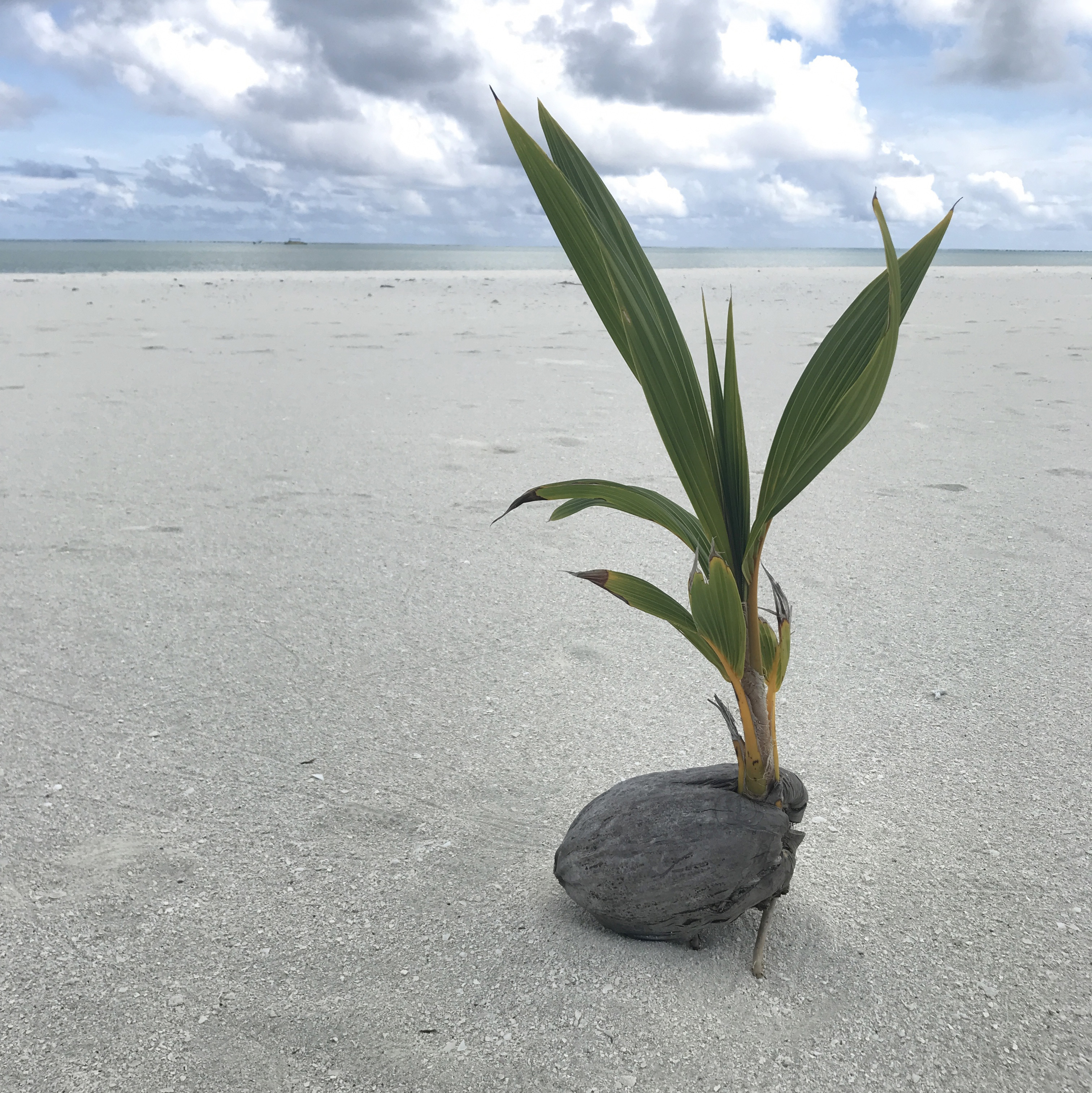 Coconut palm sprouting from a coconut on a white sand beach on a small island (motu) in Aitutaki, Cook Islands, South Pacific. Photo by Nick Longrich